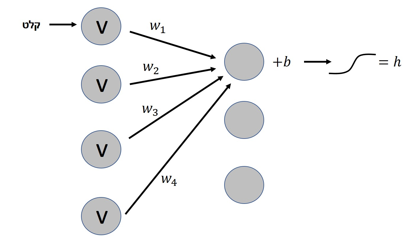 boltzmann.1